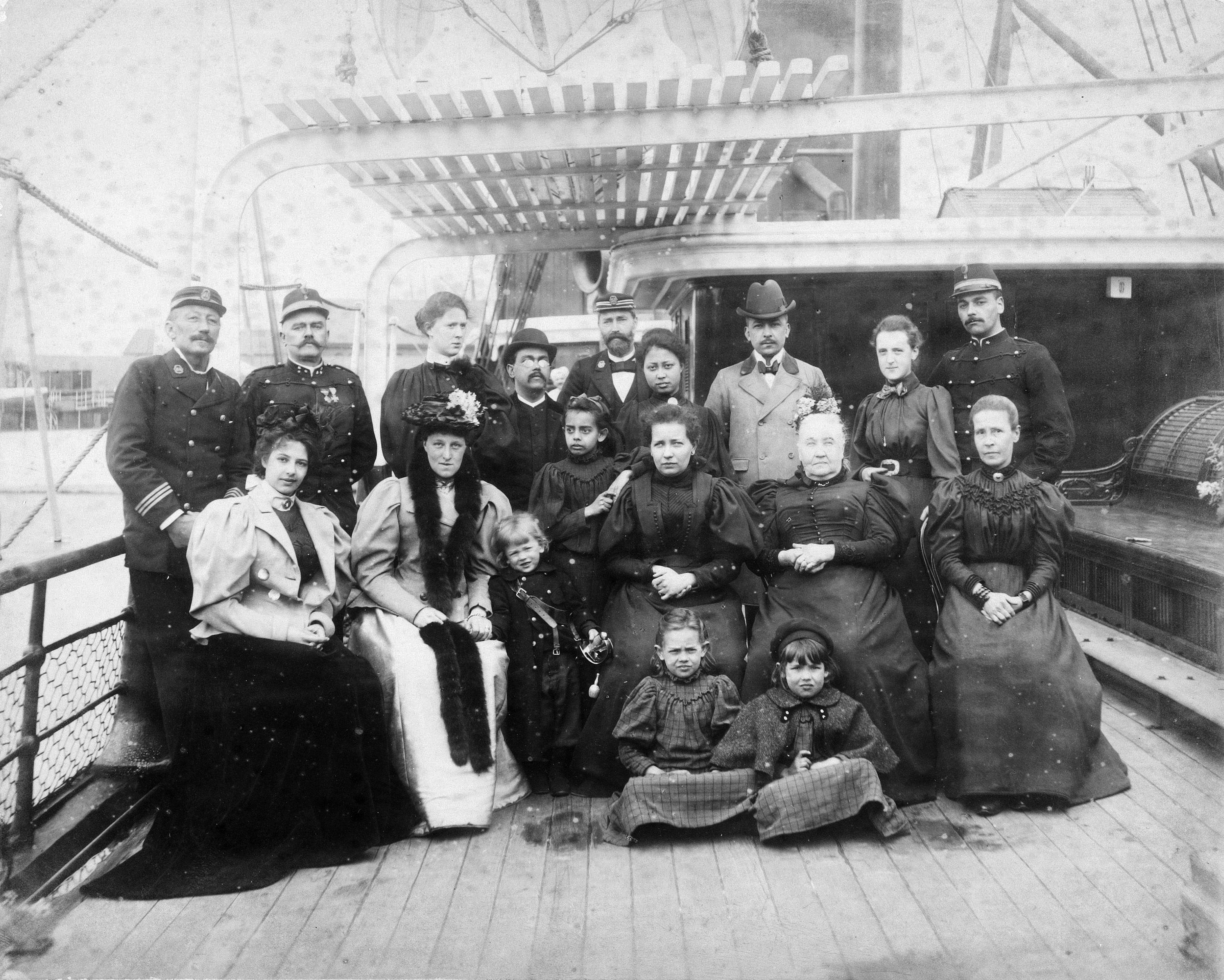 Margaretha Geertruida MacLeod-Zelle, the later Mata-Hari, (utmost left) and behind her captain Rudolph John MacLeod, her husband, on board the Prinses Amalia from the Stoomvaart Maatschappij Nederland on their way to the Dutch East Indies, probably at Southampton.